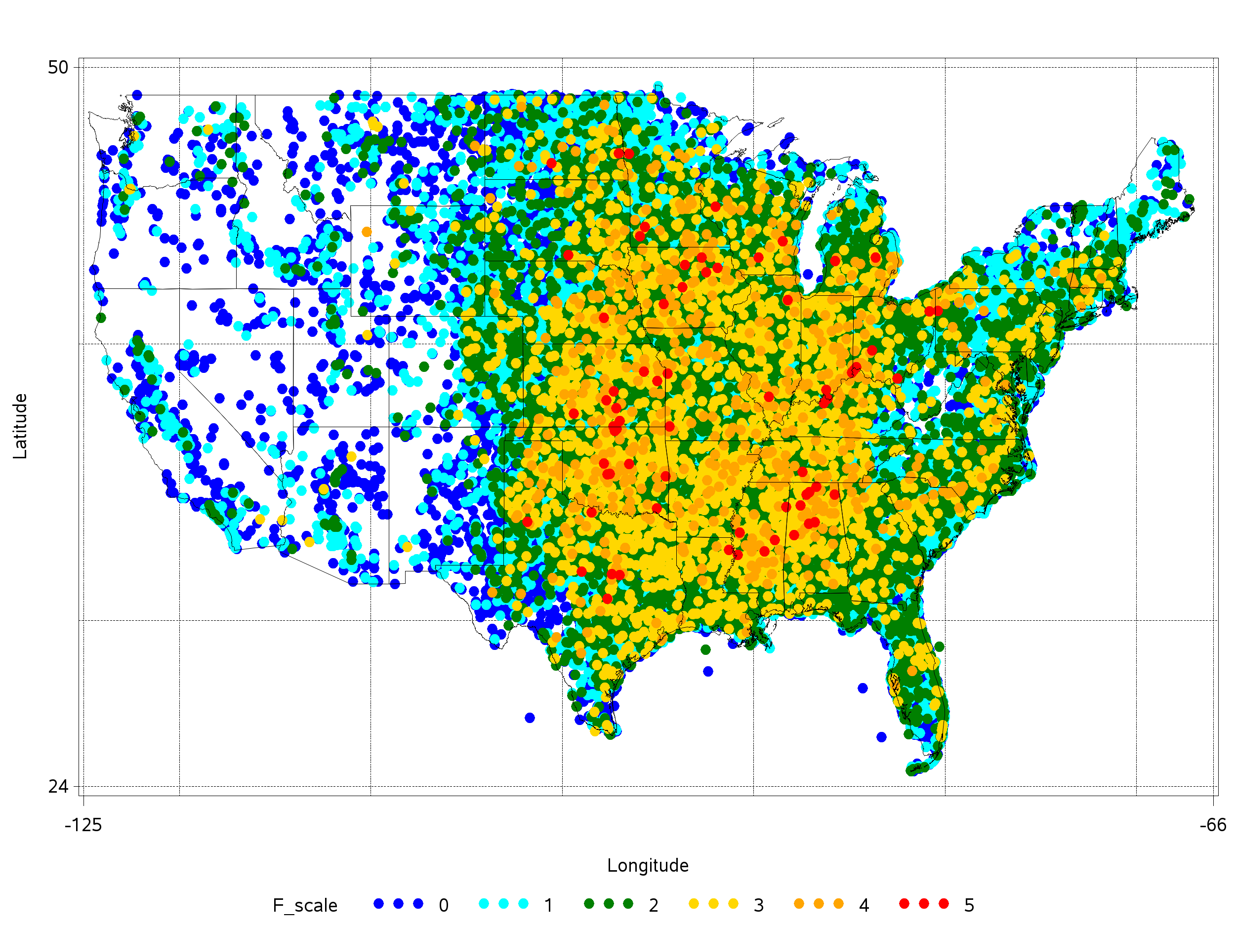 All tornadoes in the US, 1950-2013, plotted by mid-point, highest F-scale on top, Alaska and Hawaii negligible, source NOAA Storm Prediction Center.